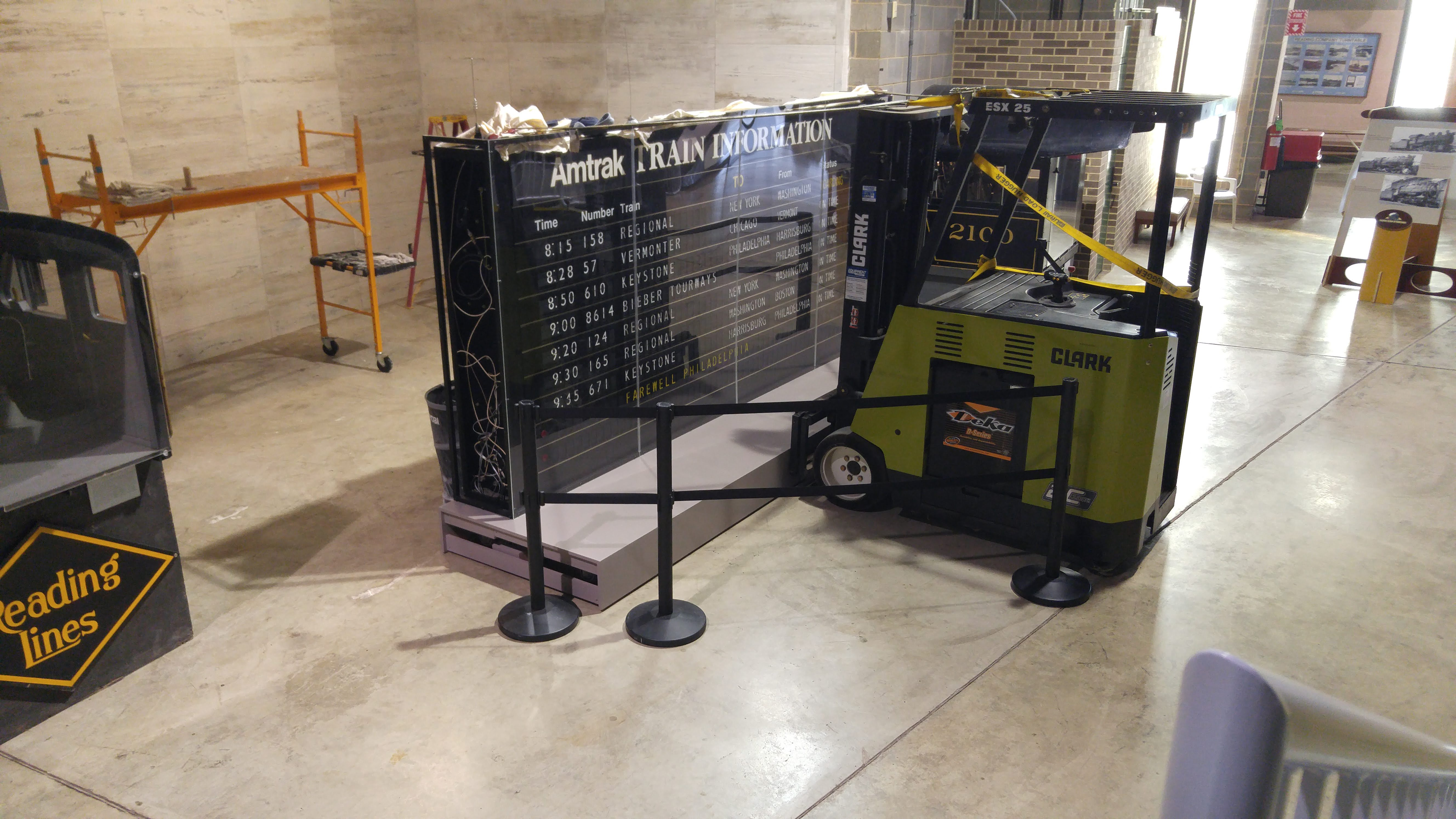 The Solari board from Philadelphia's 30th Street Station awaits installation in a display at the Railroad Museum of Pennsylvania.